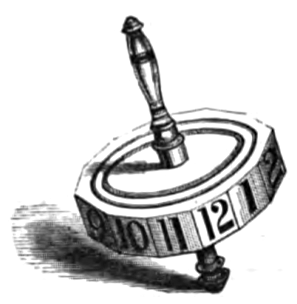 Image of a teetotum; a randomizing game device; from an 1881 book.